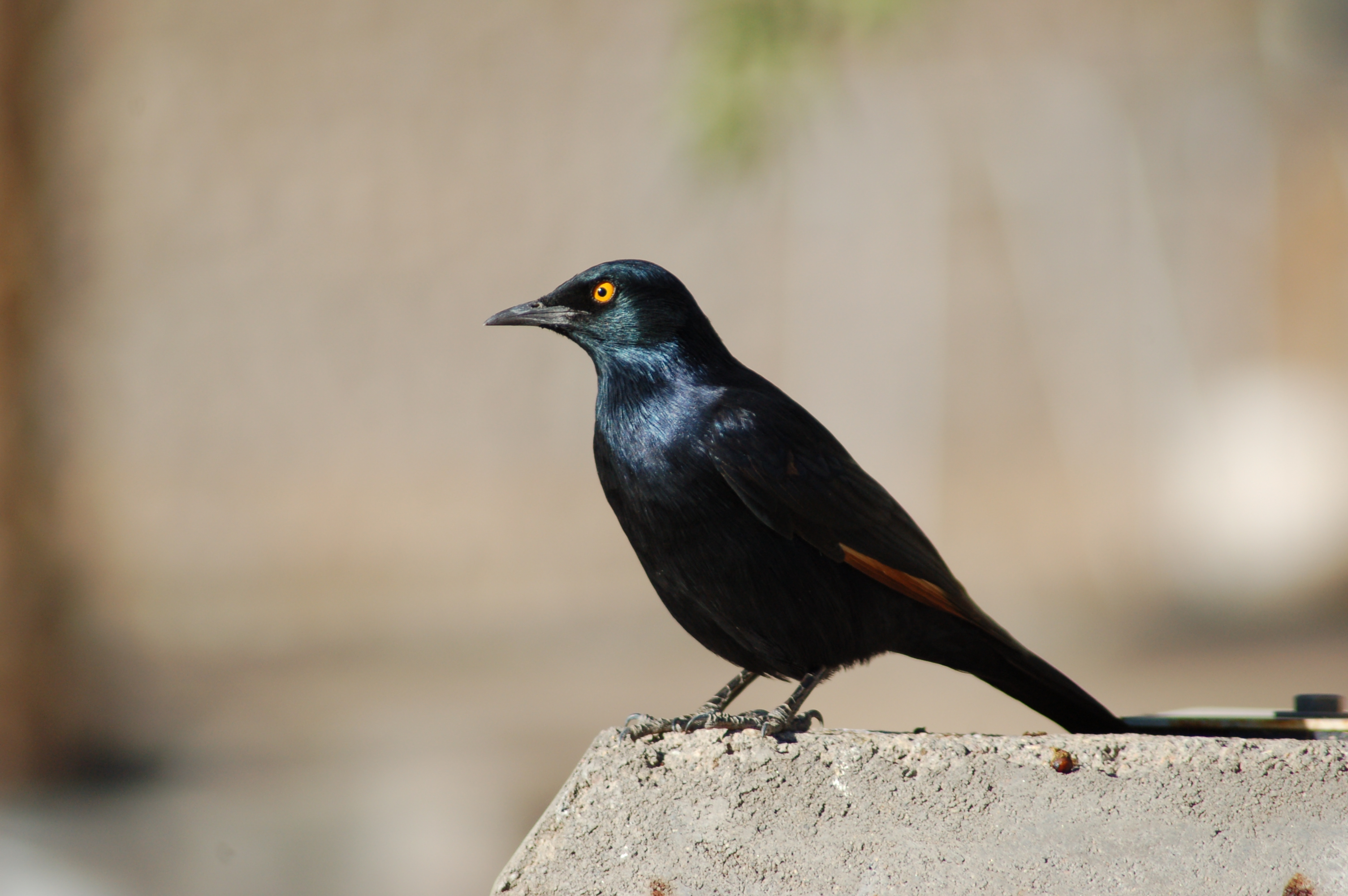 A Pale-winged Starling in Fish River Canyon, Namibia.